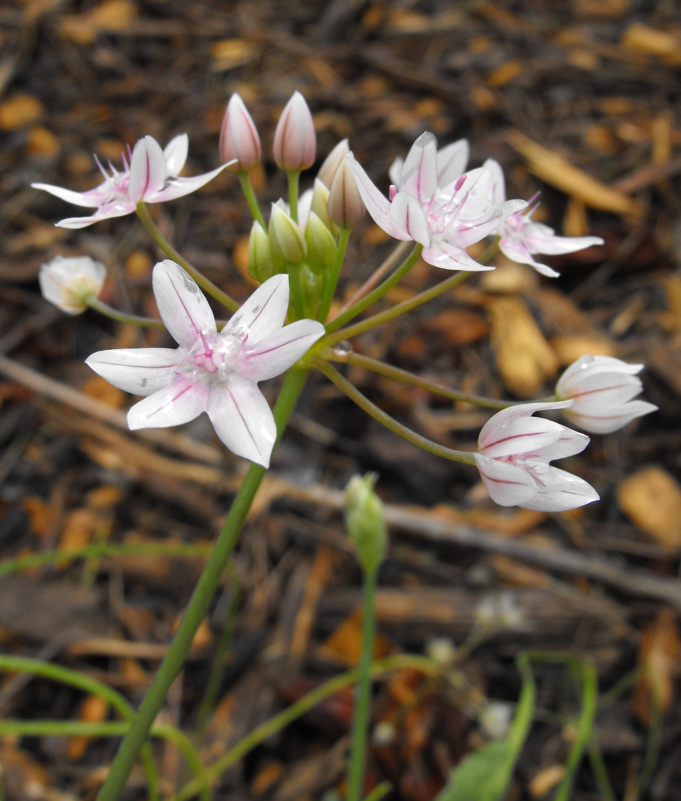 Allium hyalinum — glassy onion. At the University of California Botanical Garden of UC Berkeley, in the Berkeley Hills, California. Endemic to California, and identified by sign.